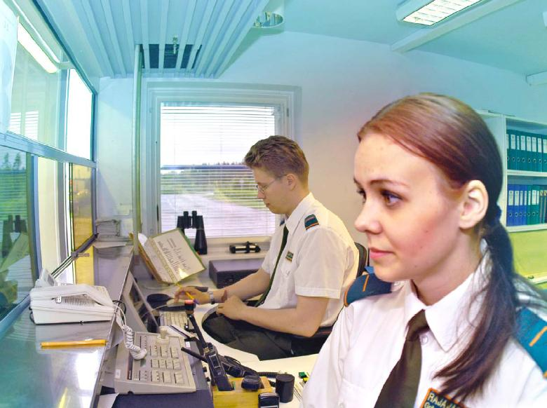 Members of Finnish Border Guard at a passport control point.